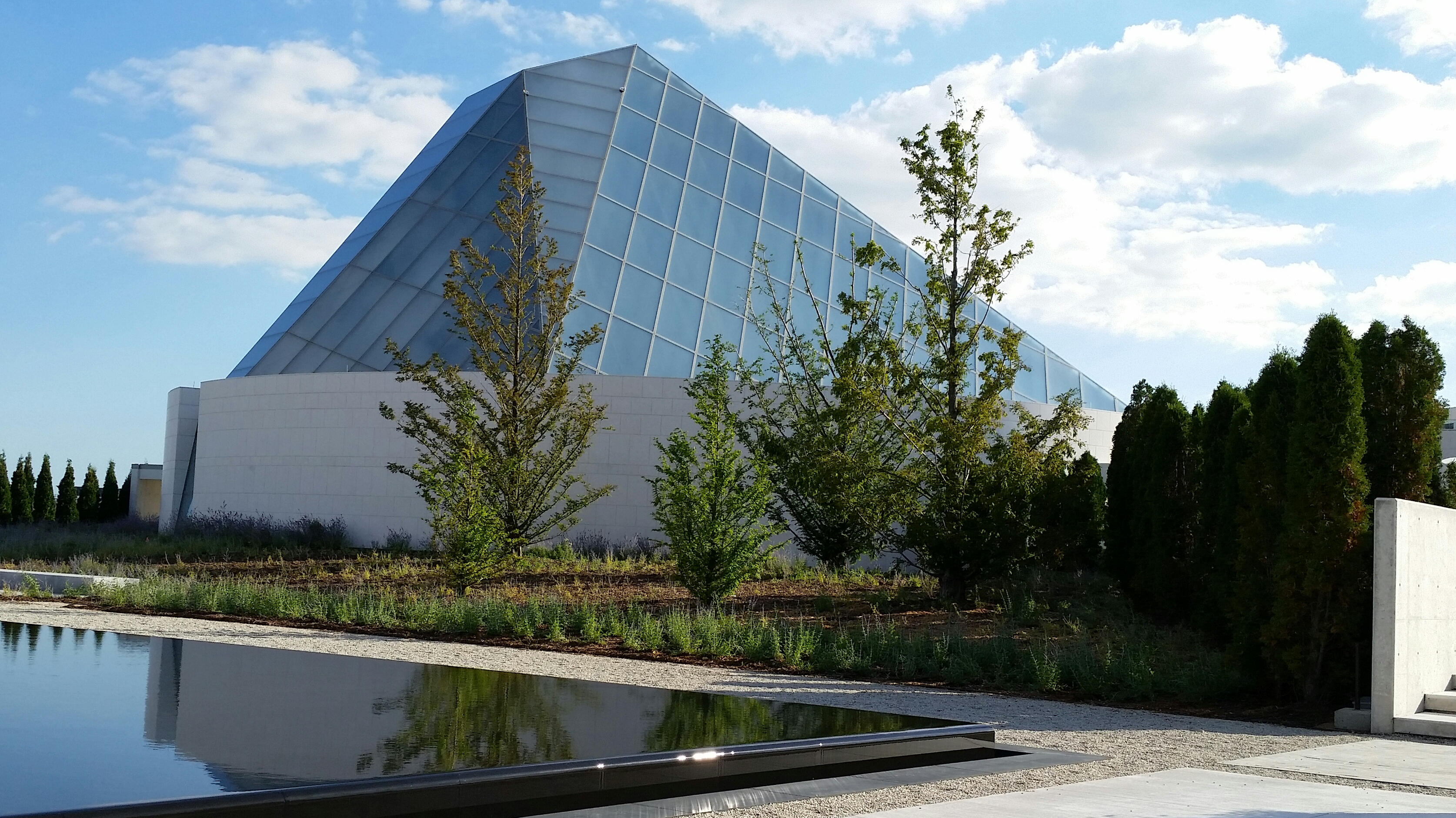 The glass roof of the prayer hall is seen behind the reflecting pond